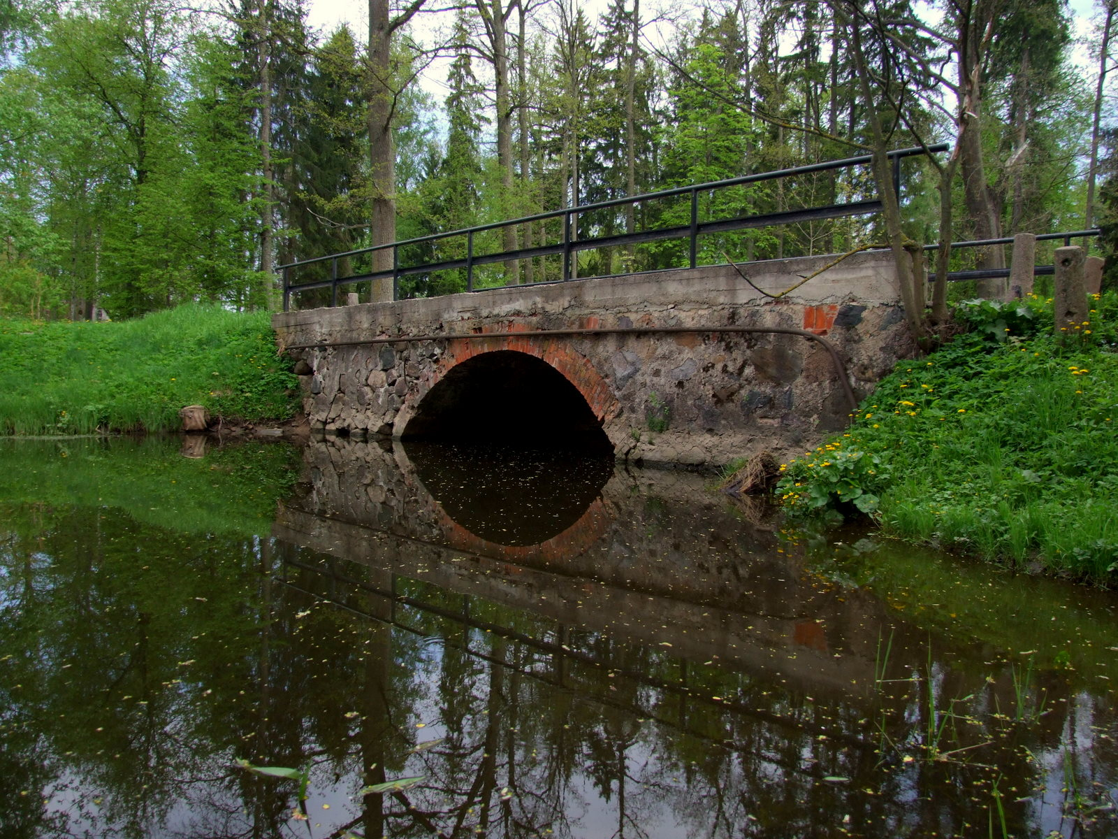 Bridge across Sidrabe River in Gross-Platohn Park